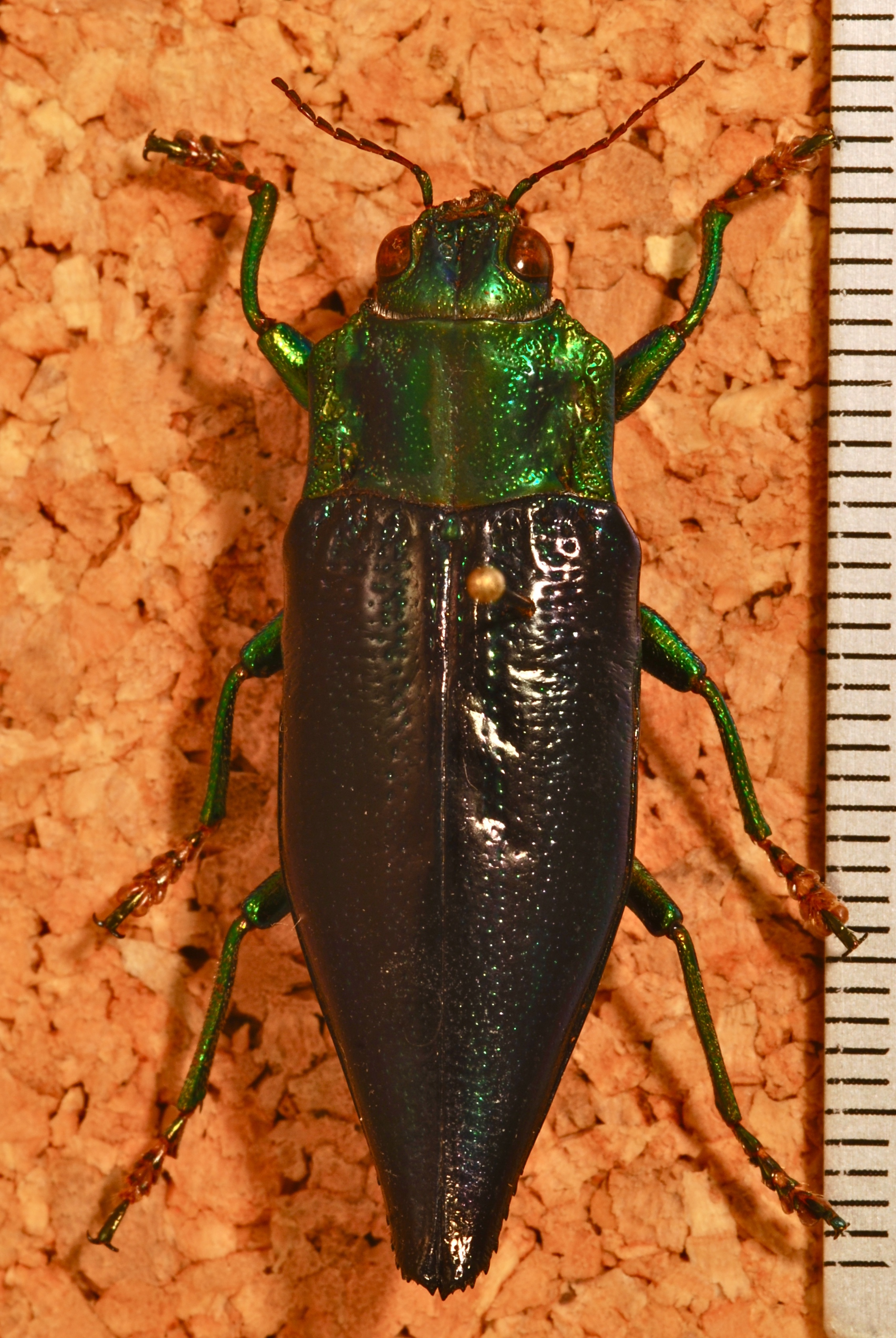 Wetar Island, INDONESIA